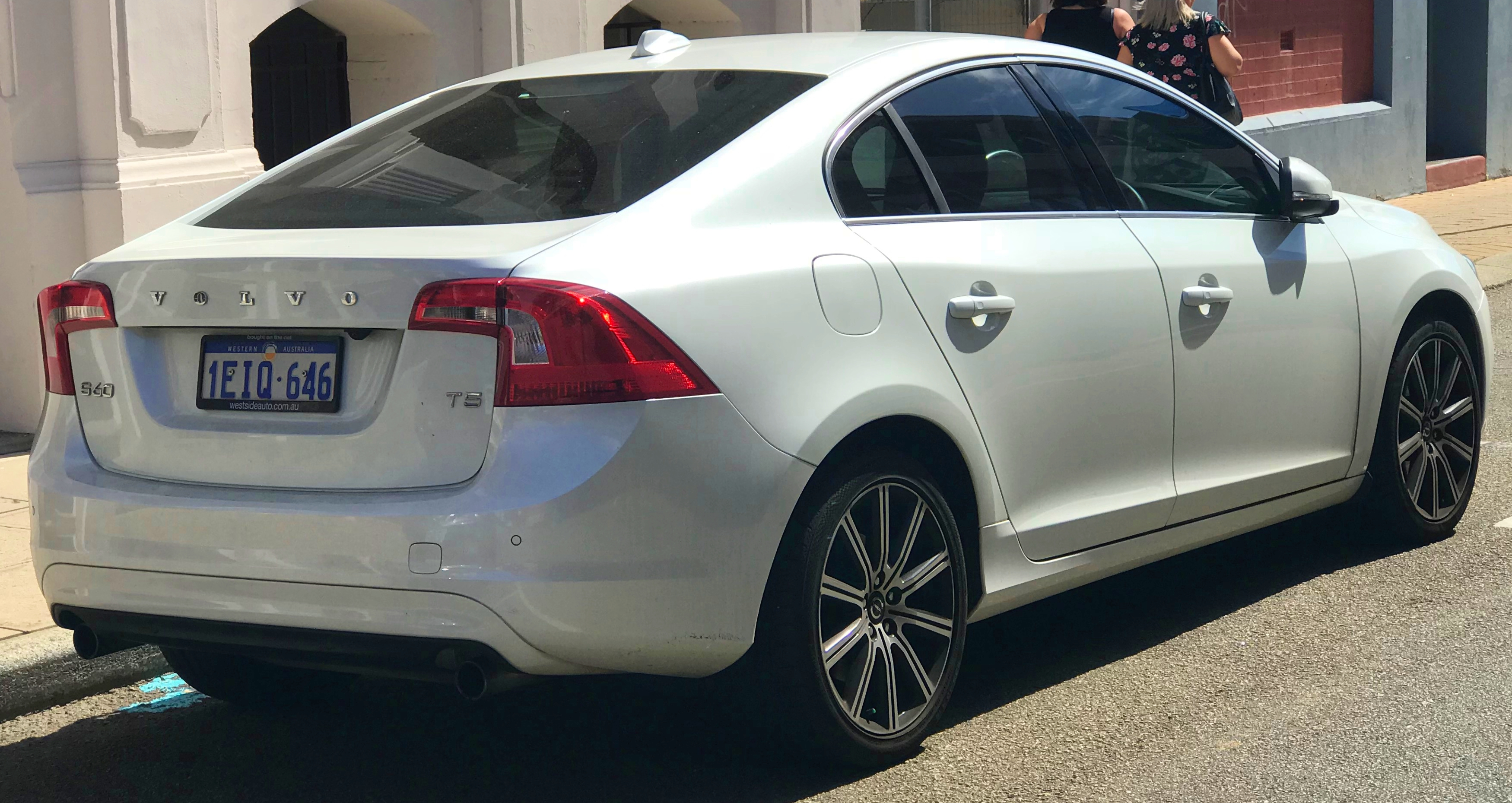 2013 Volvo S60 (MY14) T5 Luxury sedan. Photographed in Fremantle, Western Australia, Australia.